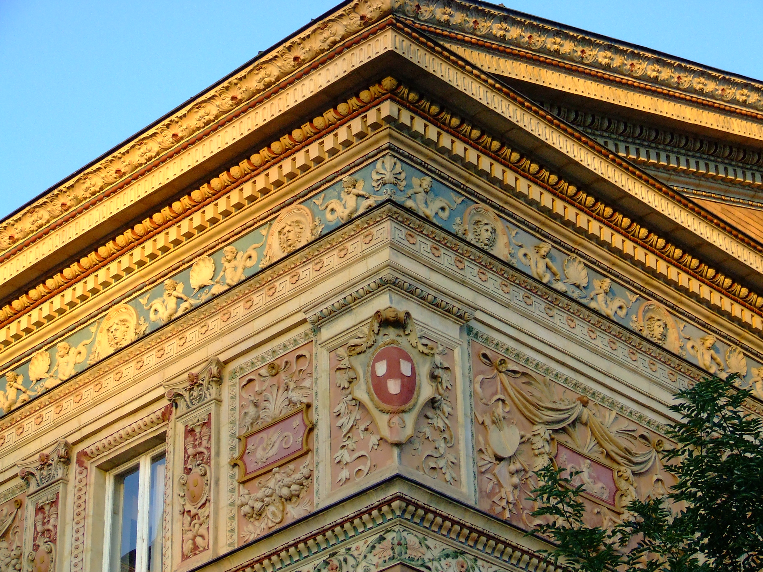 Palace of Art- Budapest